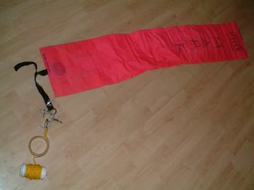 deco buoy unfurled